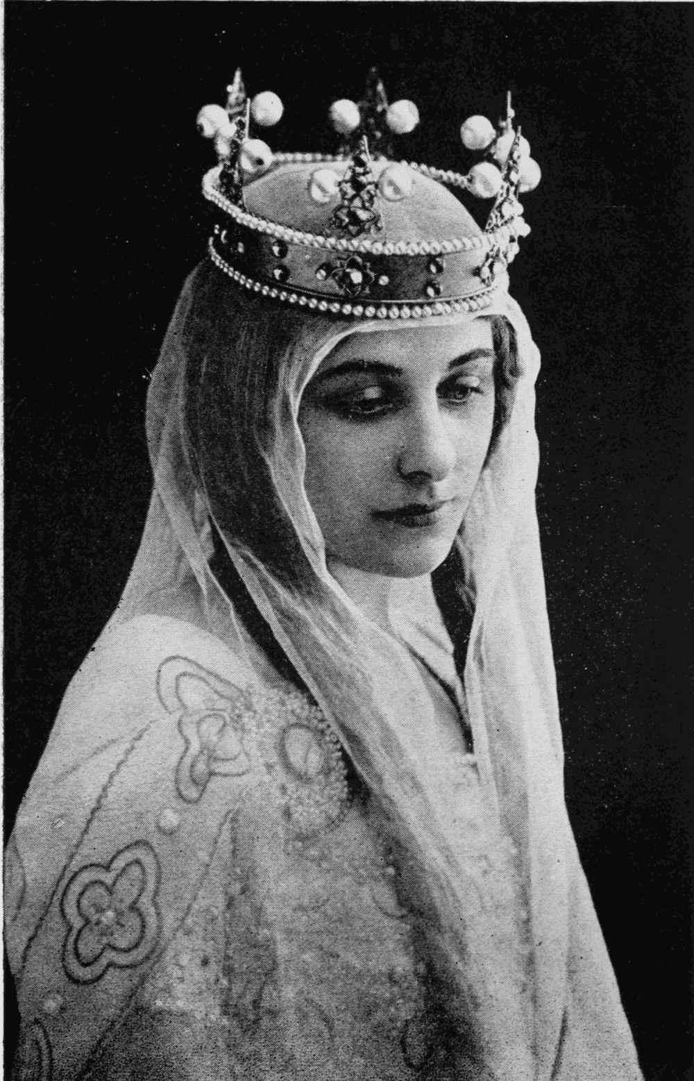 Geraldine Farrar as Elisabeth